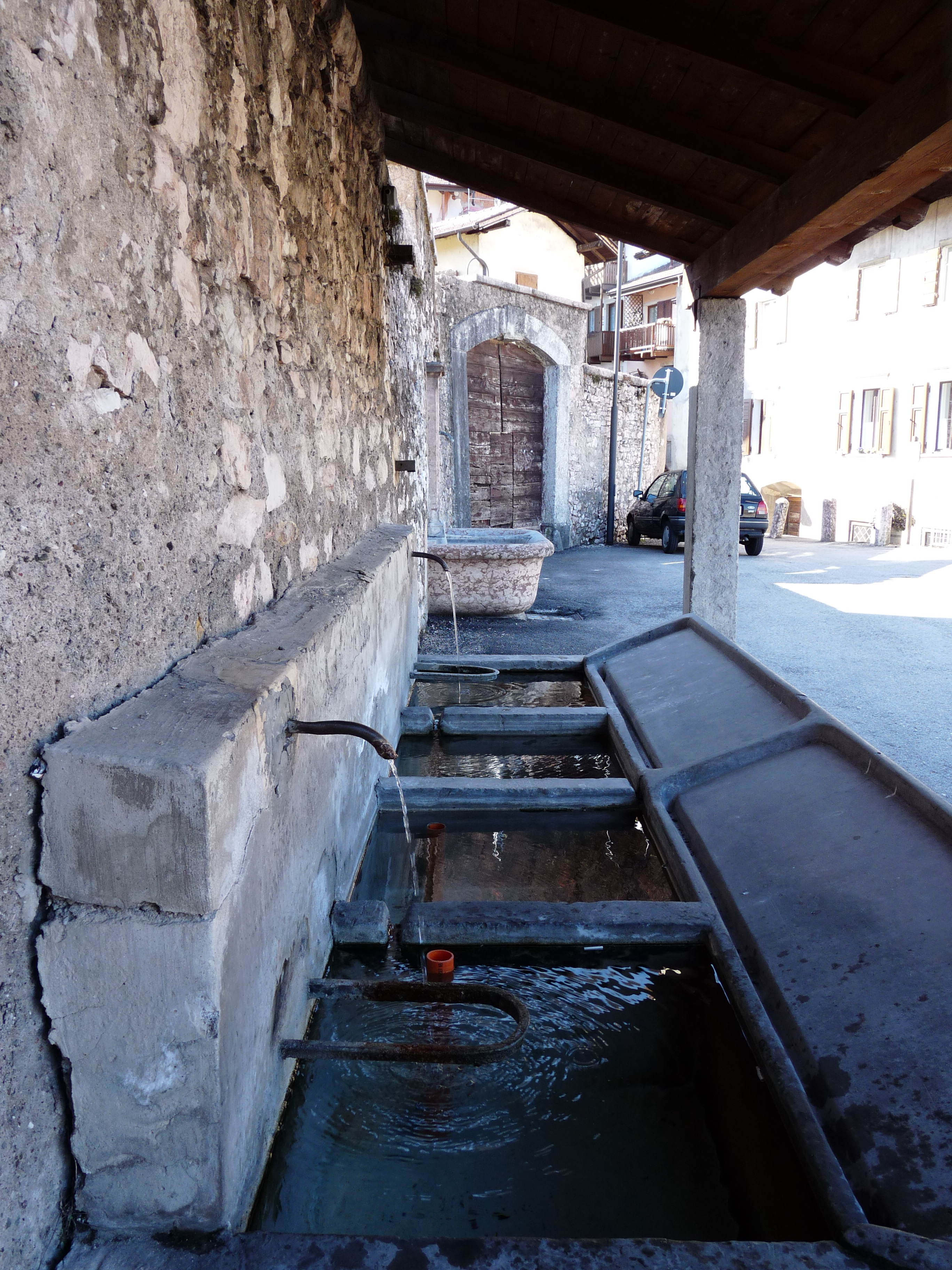 Trento (Italy): wash house in the village of Vela (detail)